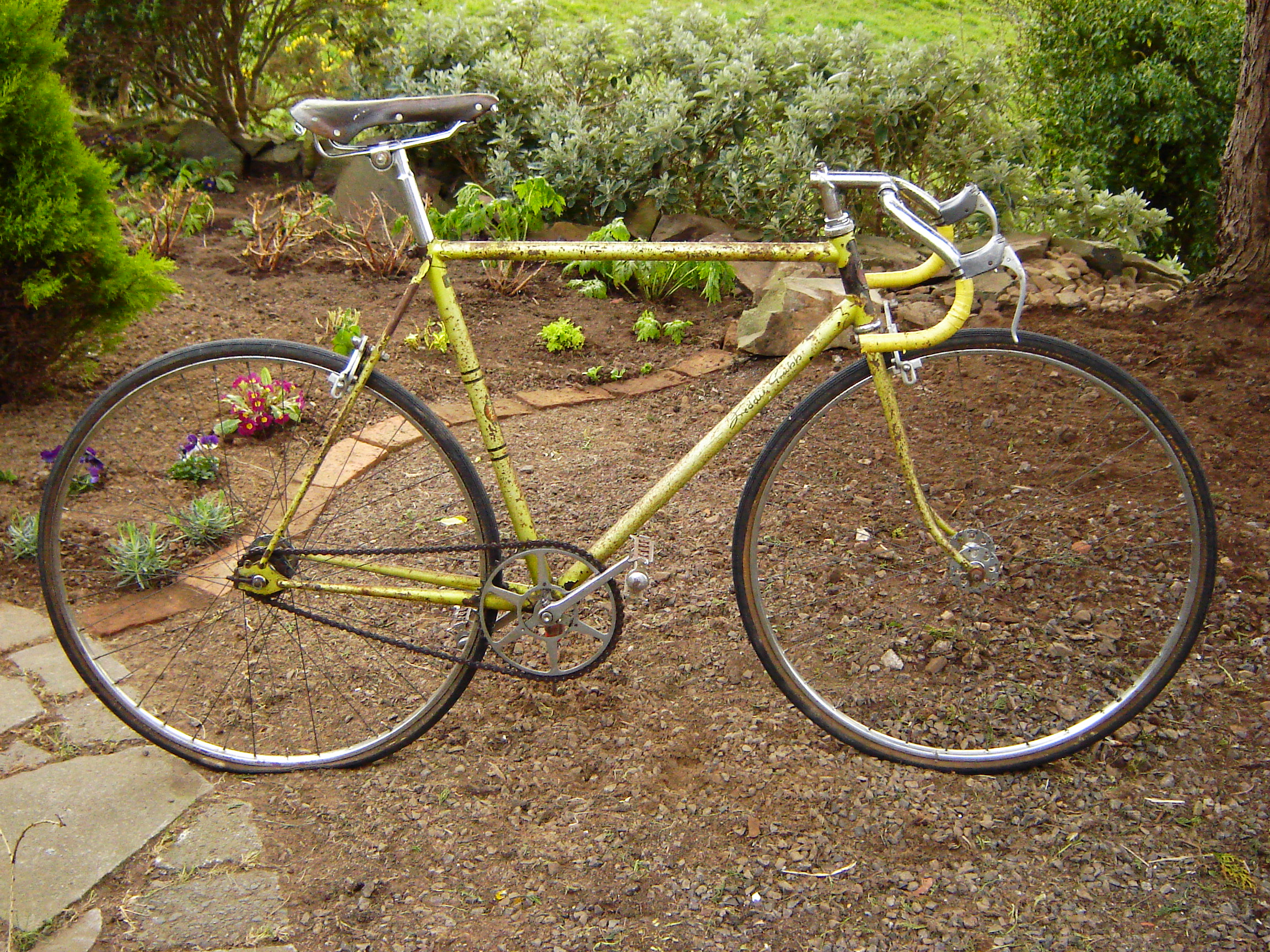 (Holdsworth) Freddie Grubb track bike c. 1957, original unrestored condition. Not a real track bike of course, this is a general purpose fixed machine, probably intended for clubmen to use over the winter. This originally belonged to my uncle who apparently got it after passing the 11+... he must have been quite a large 11 year old as this is a 21.5" frame! Plain gauge 531 and some nice components, esp. the handlebars. From what I can glean from the dimming memories of extended family members, the frame and most of the components were bought new from Geddis cycles in Belfast (a shop I remember from 20 years ago). Most of the components are fairly standard 50's items, and most are still in good condition. The paintwork is in atrocious condition though, something that seems commonplace among Grubbs of this era. That stem, those pista bars and the smallish frame all make for a very low riding position !